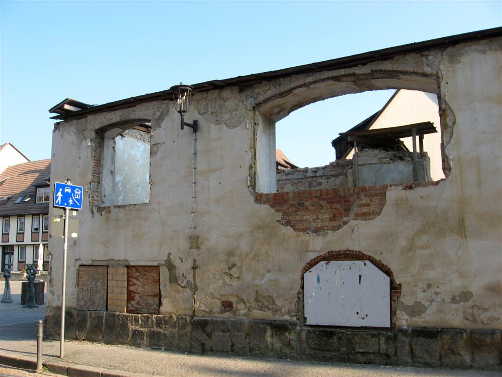 Building in Quedlinburg / Germany